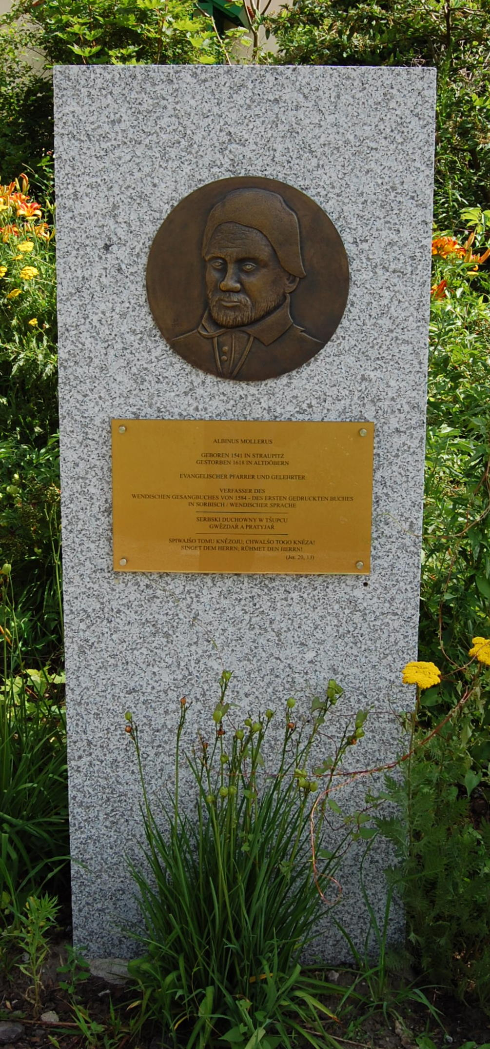 Albin Moller memorial in Straupitz, Landkreis Dahme-Spreewald, Brandenburg, Germany.